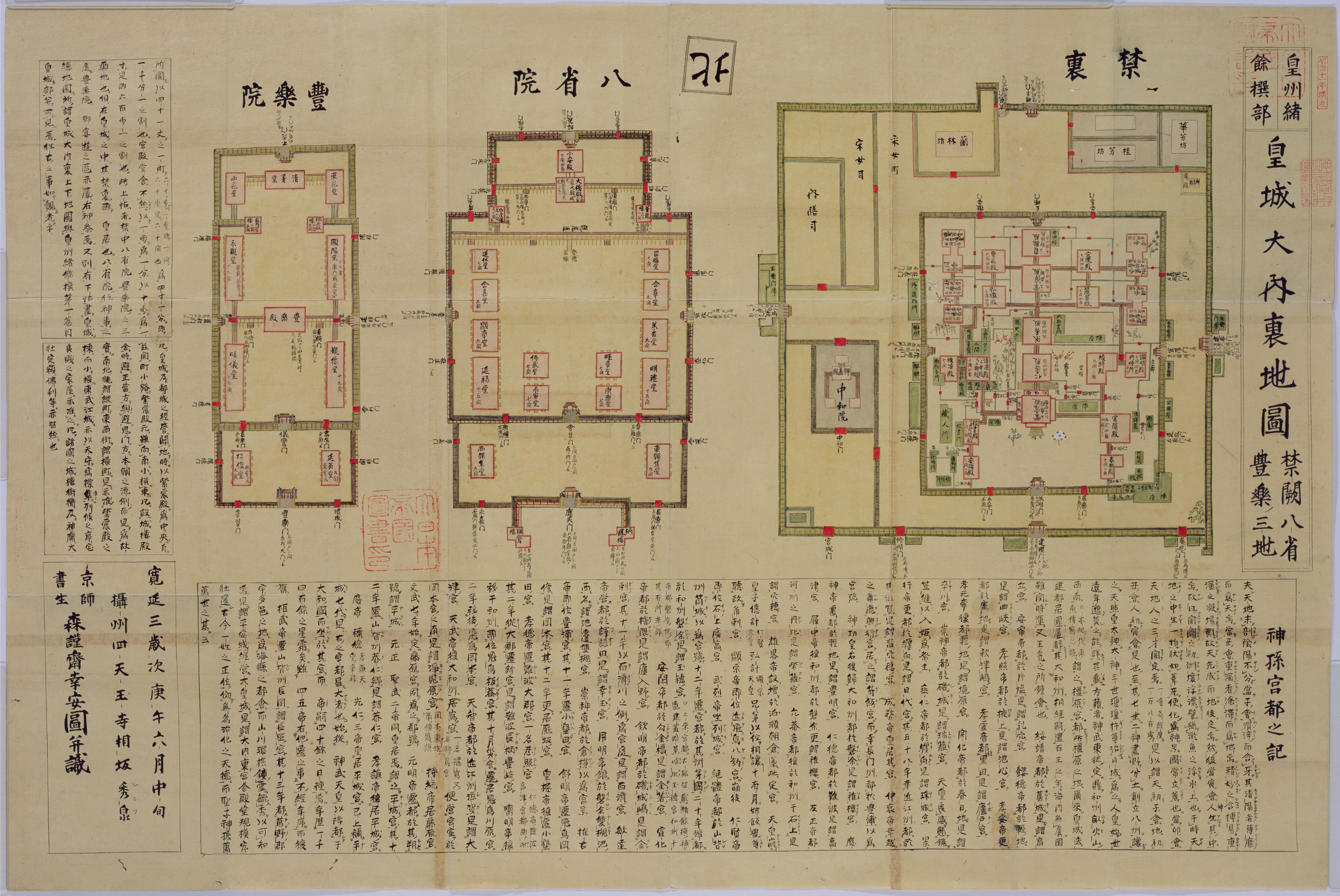 Plan of Dairi and Hasshoin, Burakuin. Transcribed by Mori Koan in 1750.